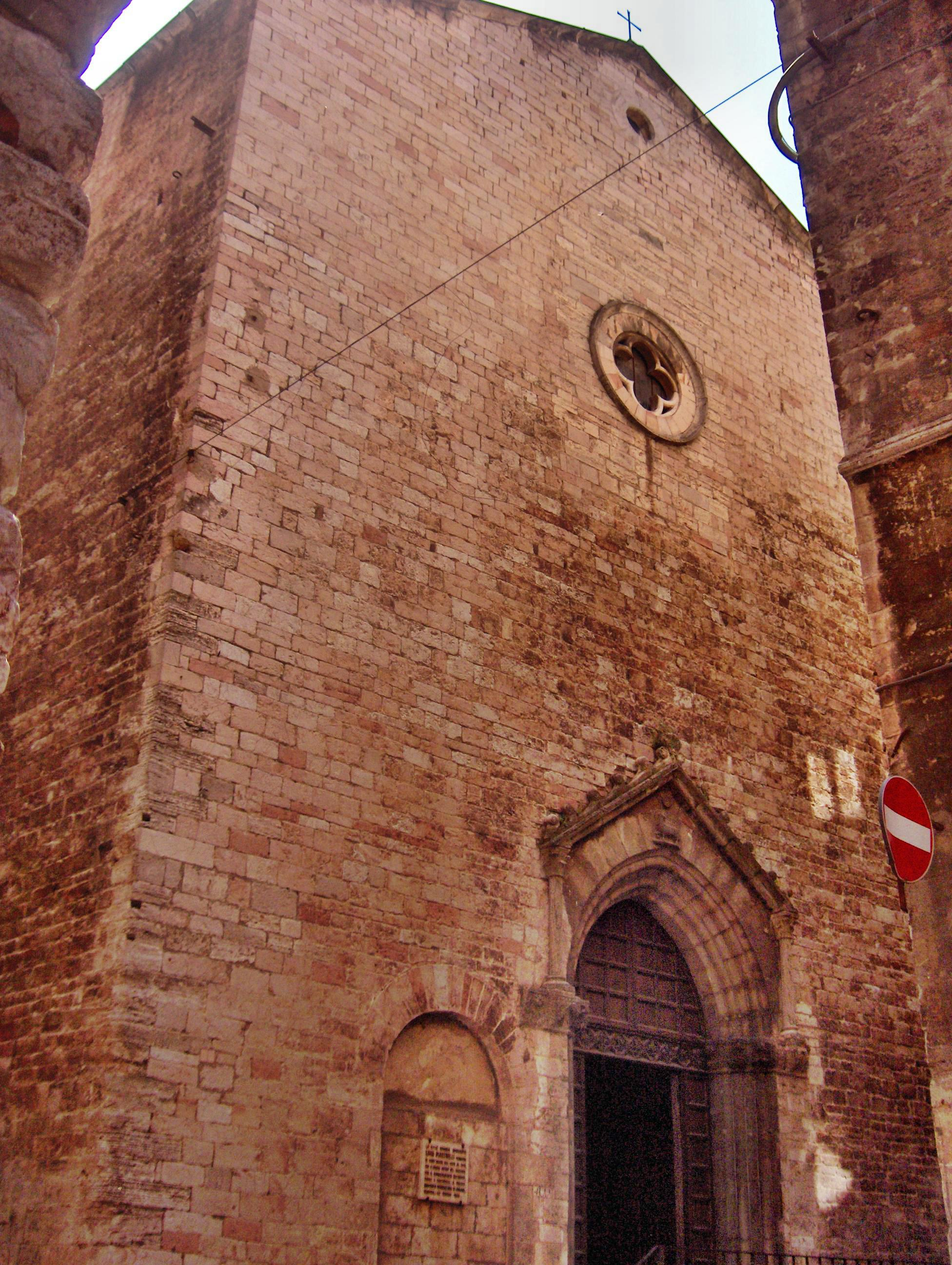 Church of St. Agata (14th c.), Perugia, Italy